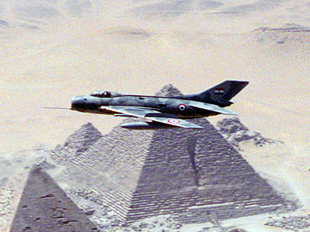 A formation of Egyptian and U.S. Navy aircraft fly over one of the Great Pyramid near Cairo during Bright Star '83. Unless indicated all are Egyptian Air Force aircraft (L to R) F-4 Phantom, F-16 Falcon, Mirage 2000, U.S. Navy F-14 Tomcat, MiG-21 Fishbed, MiG-19, U.S. Navy A7D Corsair and U.S. Navy A-6E Intruder.